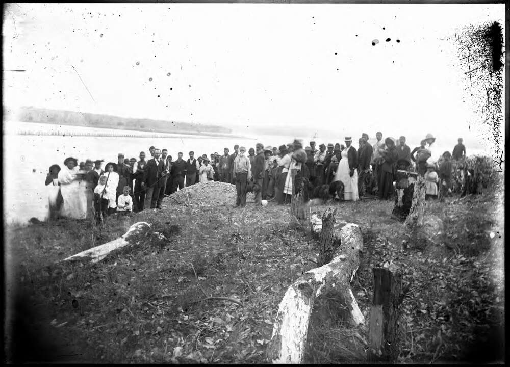 National Library of Australia scan. Date given as circa 1900.